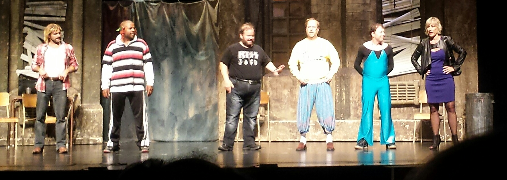 The cast of Ladies Night (Frédéric Pierre, Denis Bouchard photographed in Brossard, Quebec, Canada at the L'étoile Banque Nationale.